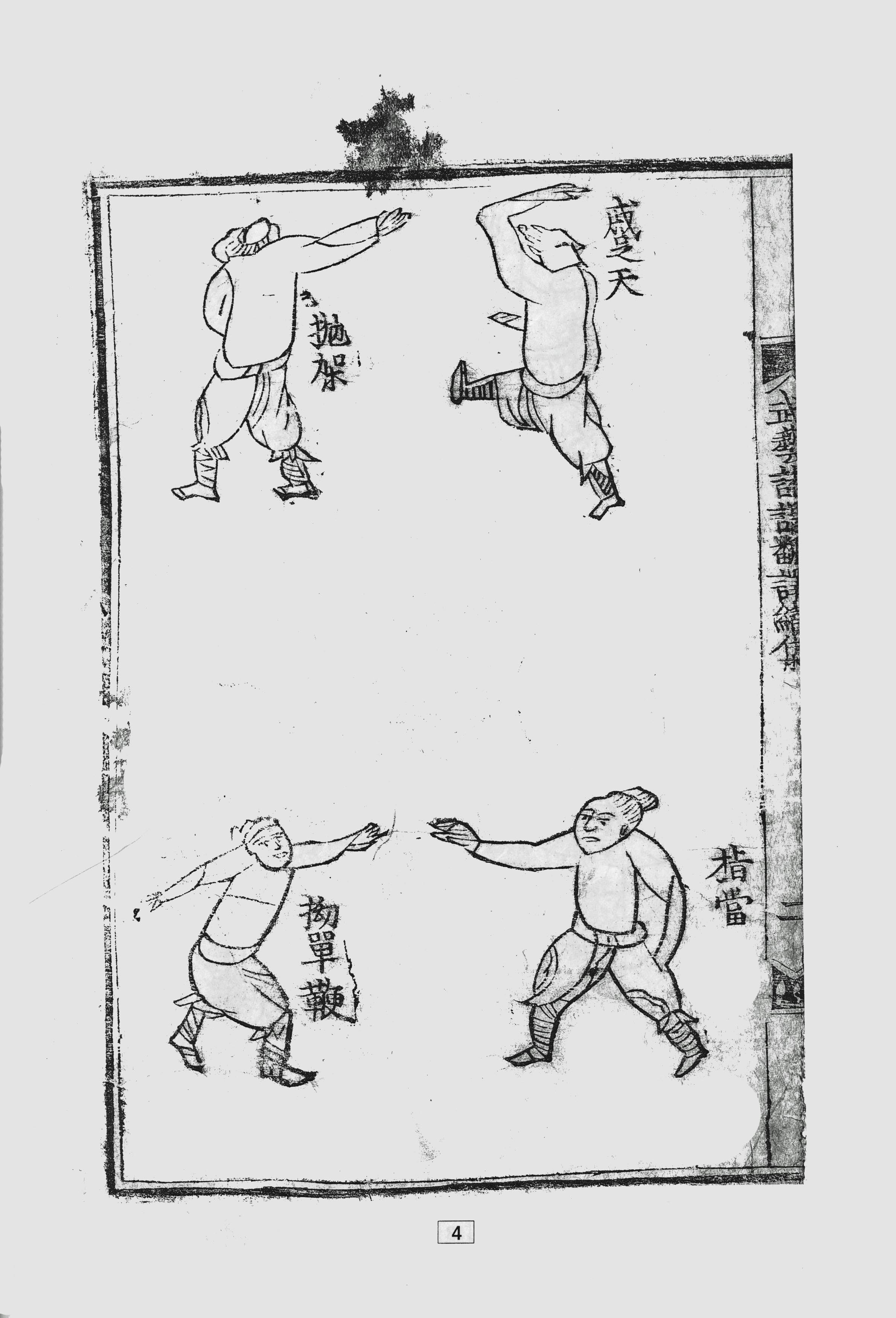 Muye Jebo - 4th page of commentary and illustrations